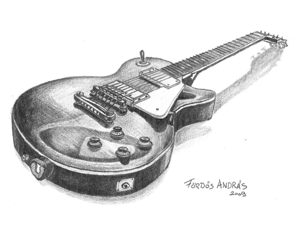 A drawing about a Les Paul guitar made by a hungarian student named Fördős András in 2009.